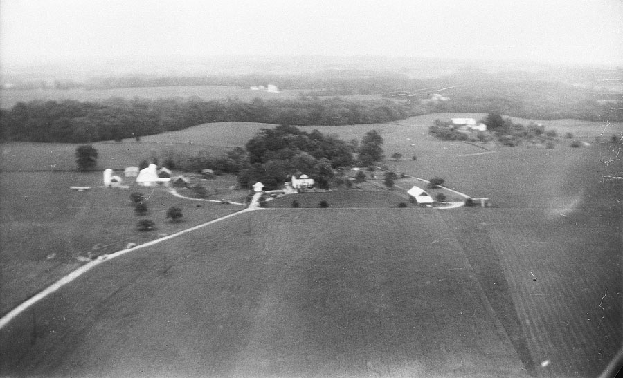 Howard Community College in 1977.Photo courtesy of Mr. Scrivener, Howard Community College. ref